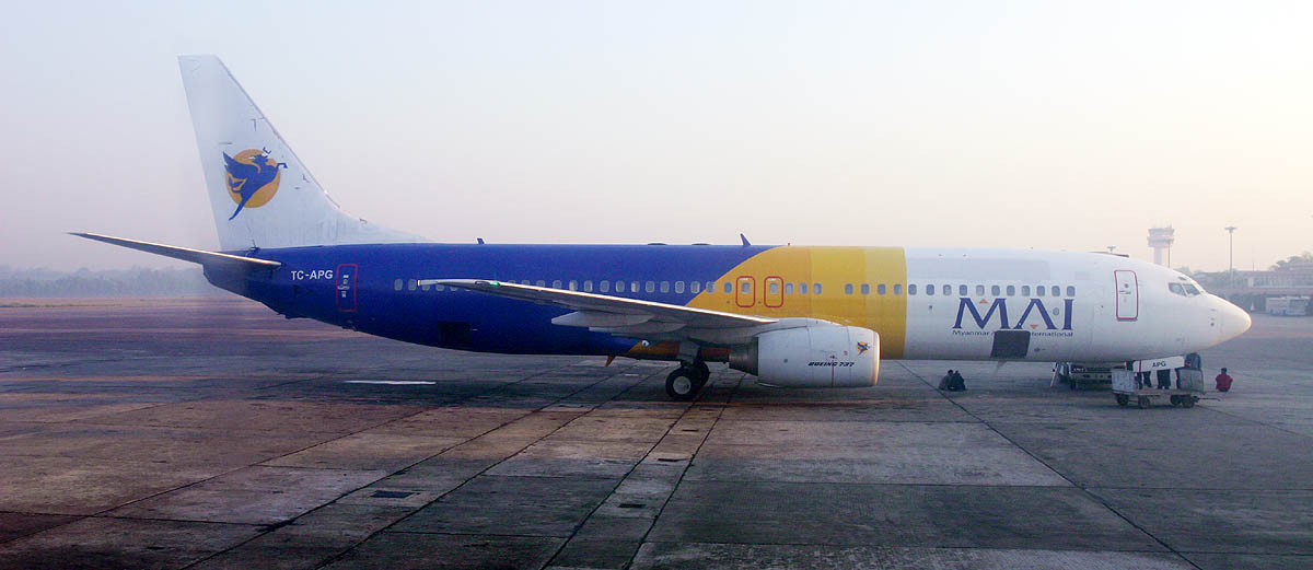 A Boeing 737-800 (TC-APG) of Myanmar Airways International at Yangon International Airport".